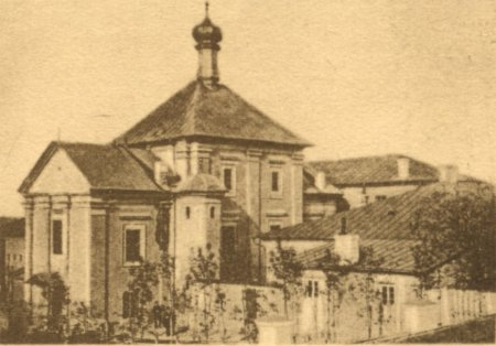 St. Nicholas Church in Cholm (Chełm), erected in the 18th century, rebuilt in the 19th century